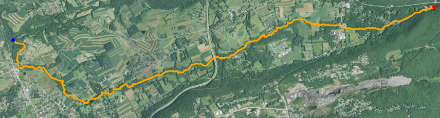 Satellite map of Little Nescopeck Creek . The red dot is the stream's source and blue dot is its mouth. Data available from U.S. Geological Survey, National Geospatial Program.